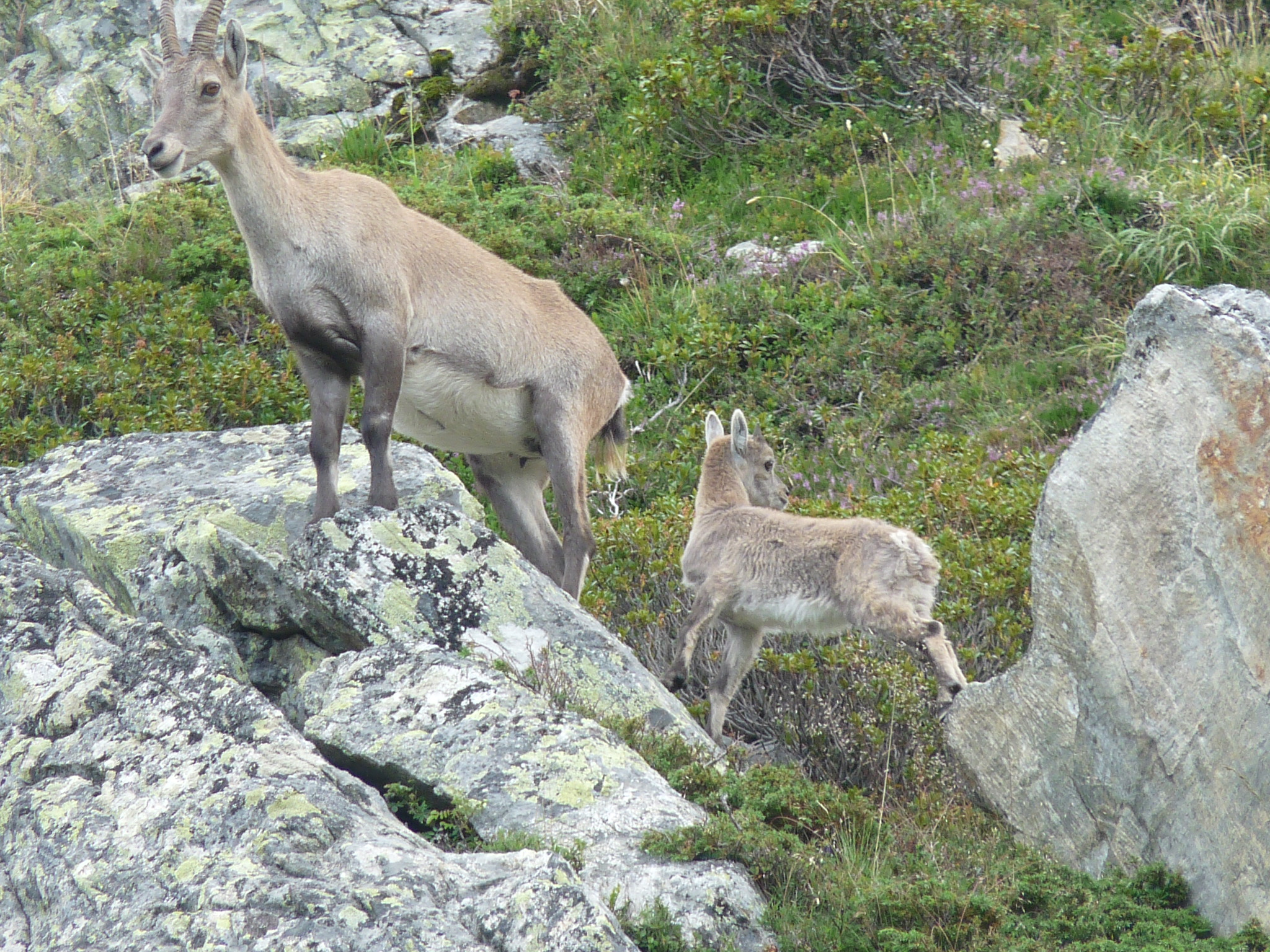 A female Capra ibex (Apline Ibex) with kid, taken near the Tré la Tete glacier on the Mont Blanc Massif, France.